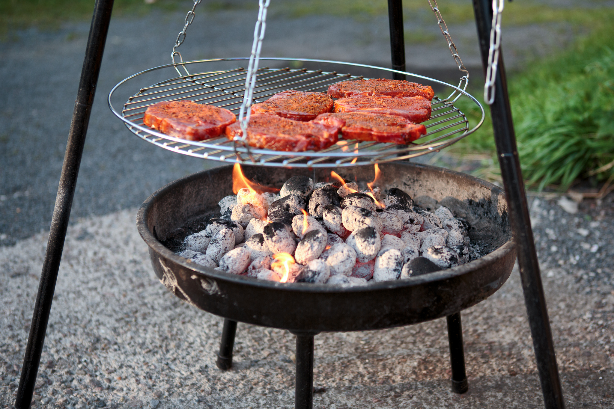 Barbecue on a schwenker